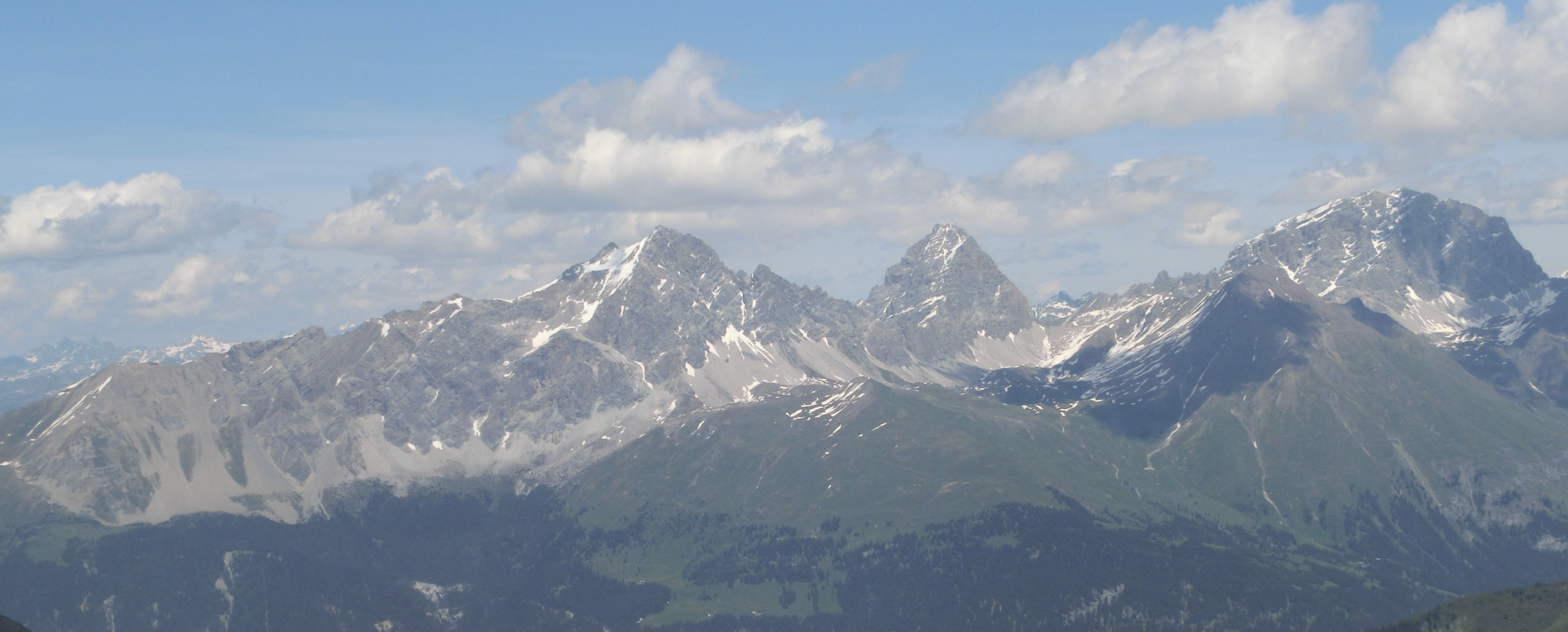 Bergüner Stöcke with Piz Mitgel, Corn da Tinizong, Piz Ela (from left to right) and Pizza Grossa (in the foreground), picture taken from Piz Settember, Riom-Parsonz, Ferrera, Grison, Switzerland